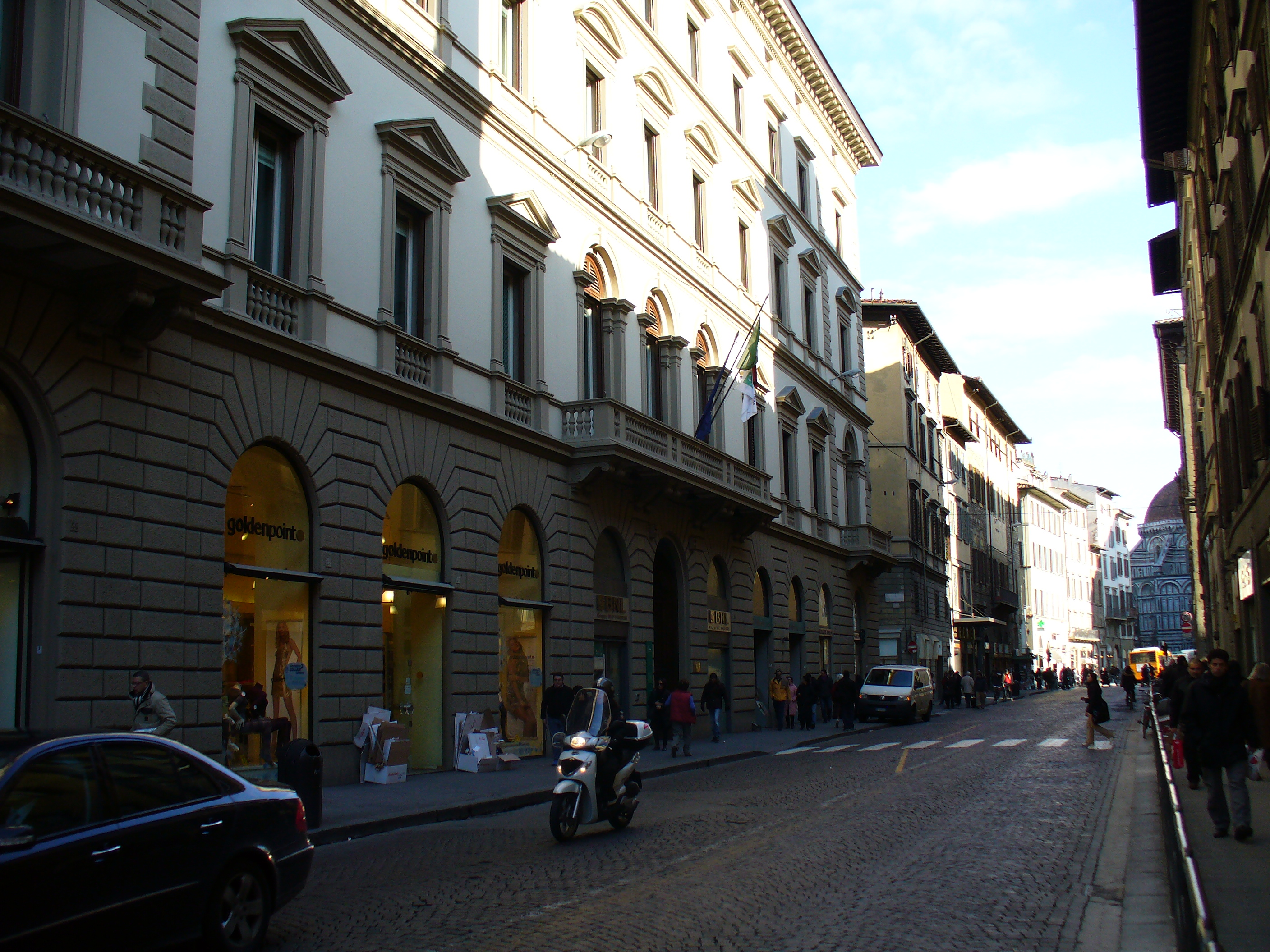 Via de' Cerretani Firenze